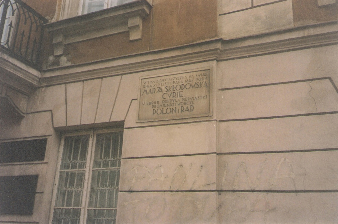 birthplace of marie curie in warsaw